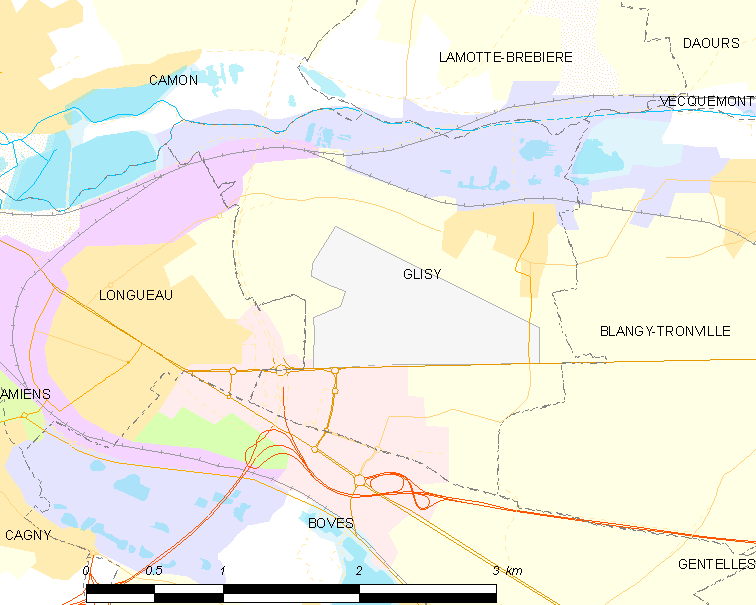 Map of French municipality Glisy